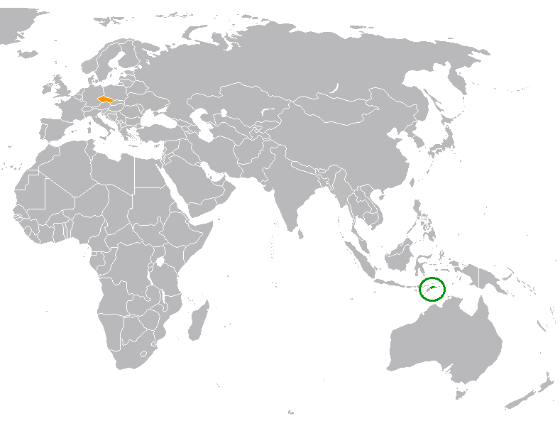 Map showing locations of both East Timor and the Czech Republic